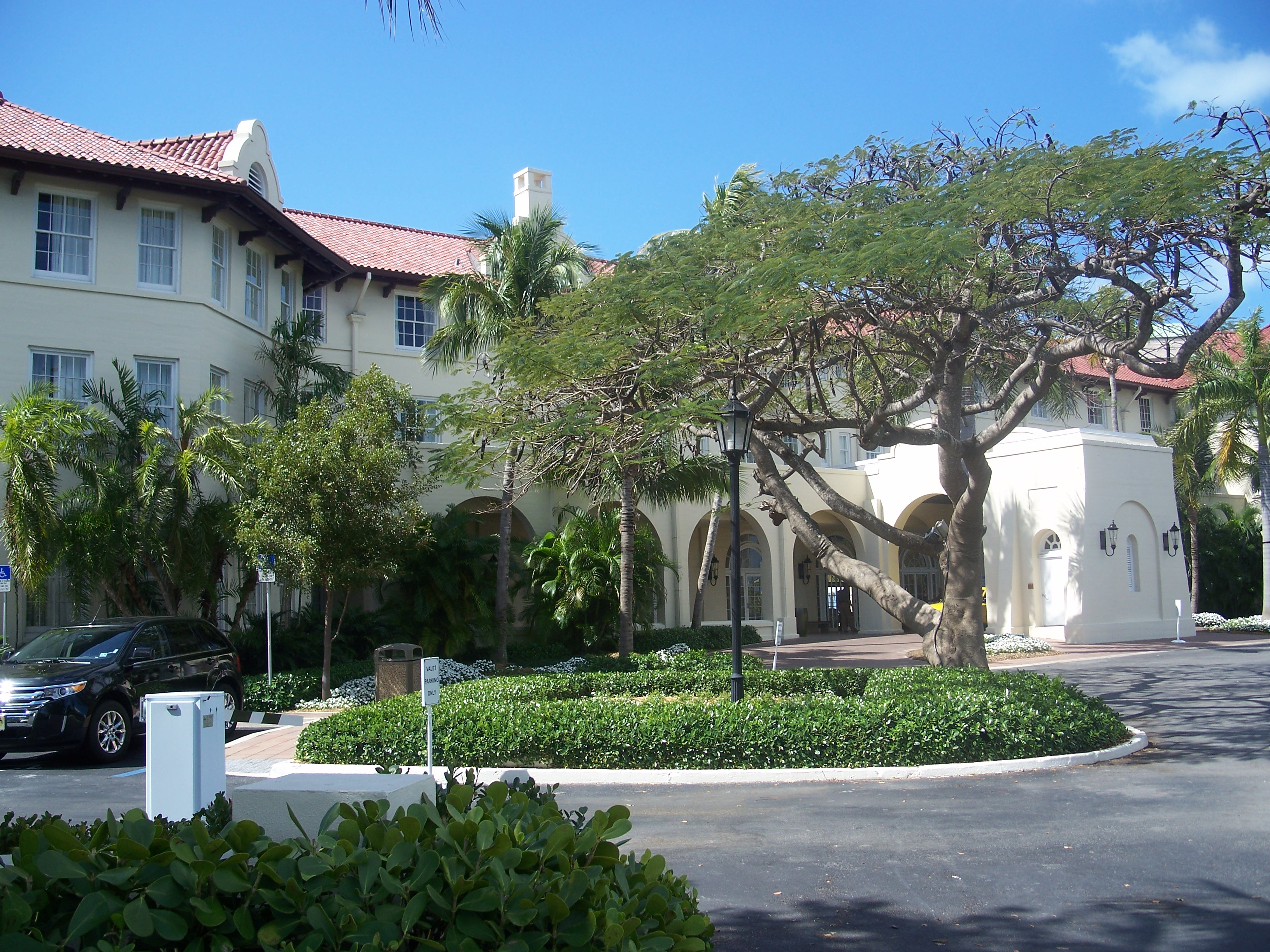 Key West, Florida: Casa Marina Hotel